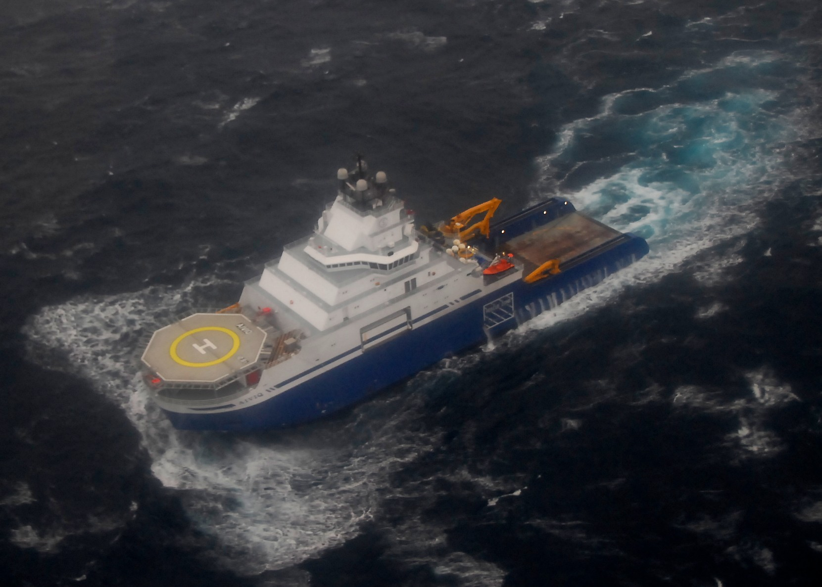 The tug Aiviq travels at just under 2 mph with the mobile drilling unit Kulluk in tow 116 miles southwest of Kodiak City, Alaska, Sunday, Dec. 30, 2012. The Aiviq is tandem towing the Kulluk with the tug Nanuq in 29 mph winds and 20-foot seas limiting their maximum speed, so they can safely control the tow. U.S. Coast Guard photo by Petty Officer 3rd Class Chris Usher.